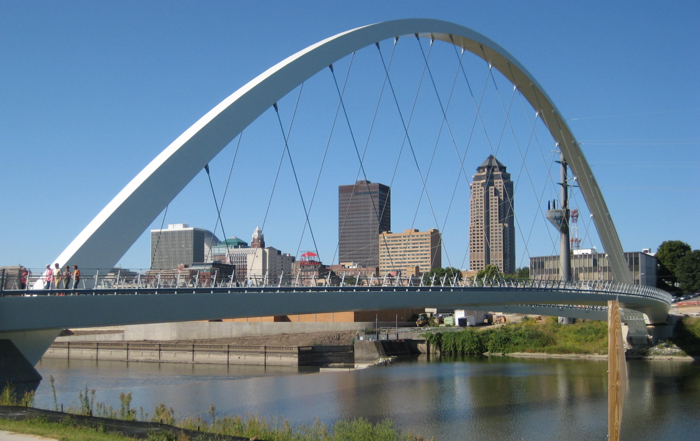 This is downtown Des Moines as viewed through the Center Street foot bridge. It was a beautiful day when I stopped to take this photo.